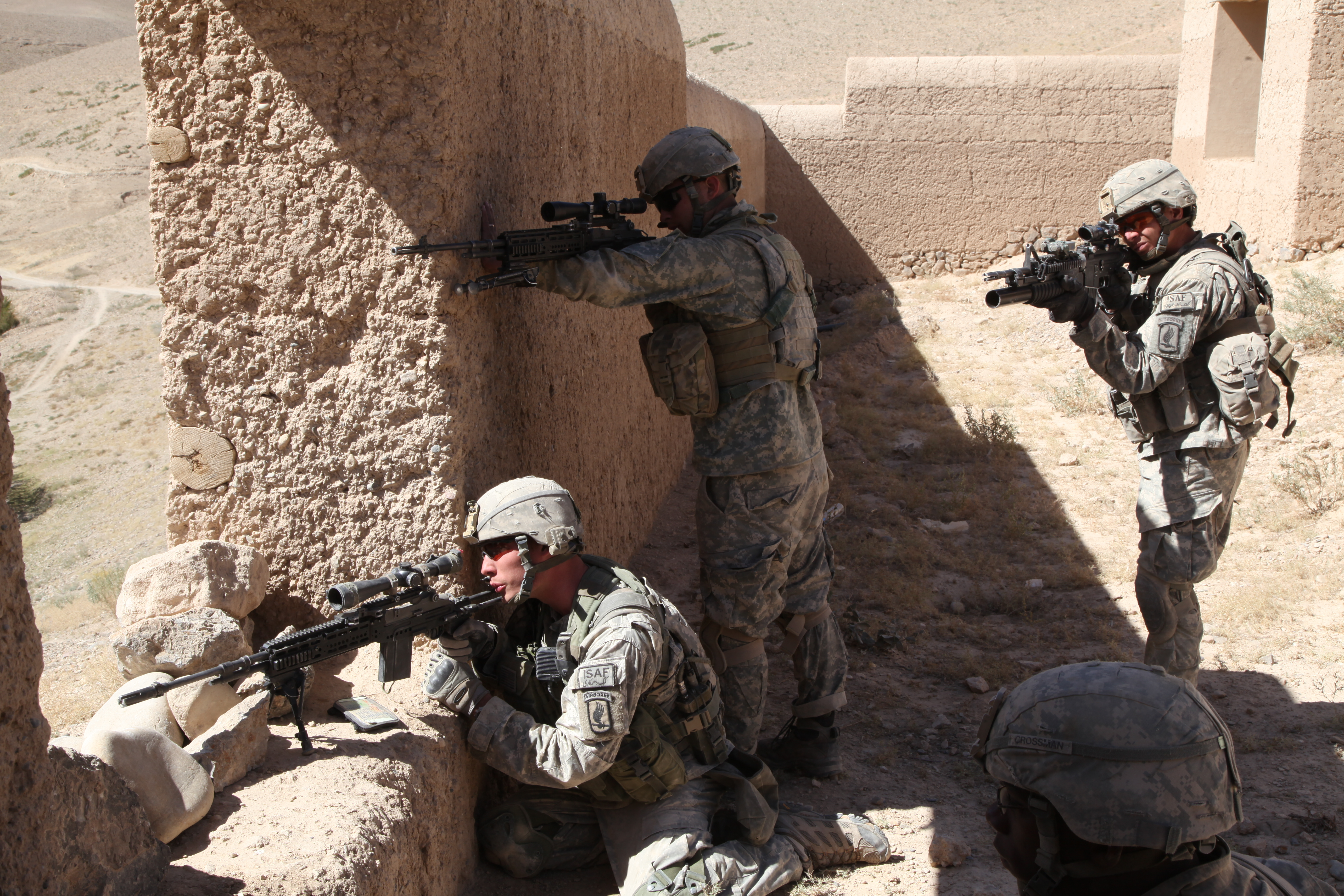 U.S. Soldiers with 3rd Platoon, Alpha Company, 1st Battalion, 503rd Infantry Regiment, 173rd Airborne Brigade Combat Team prepare to engage enemy combatants in Chak district, Wardak province, Afghanistan.